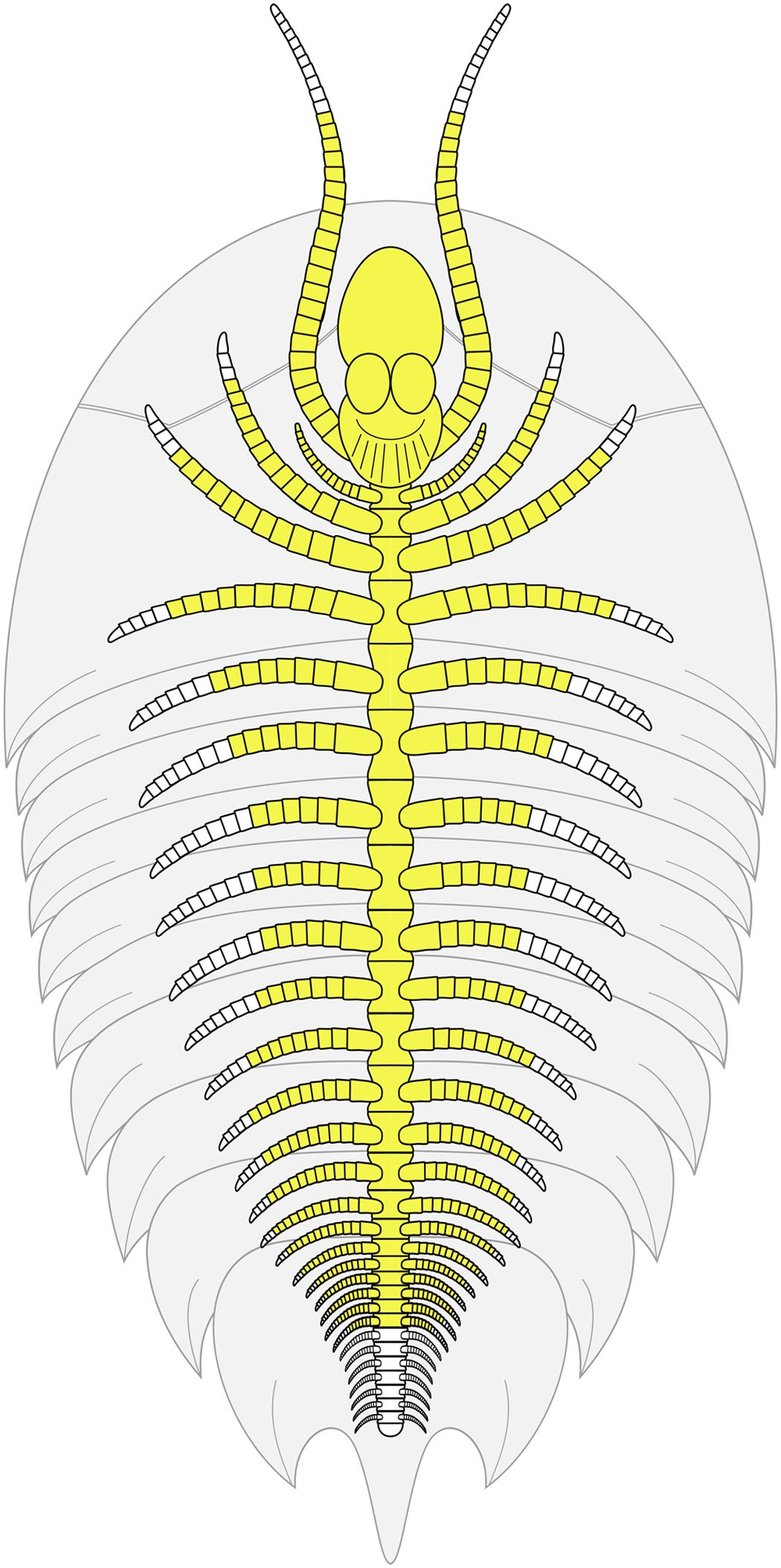 Observed ventral morphology is highlighted in yellow. Note that all aspects of the dorsal exoskeleton are hypothetical, and based on comparisons with Xandarella spectaculum